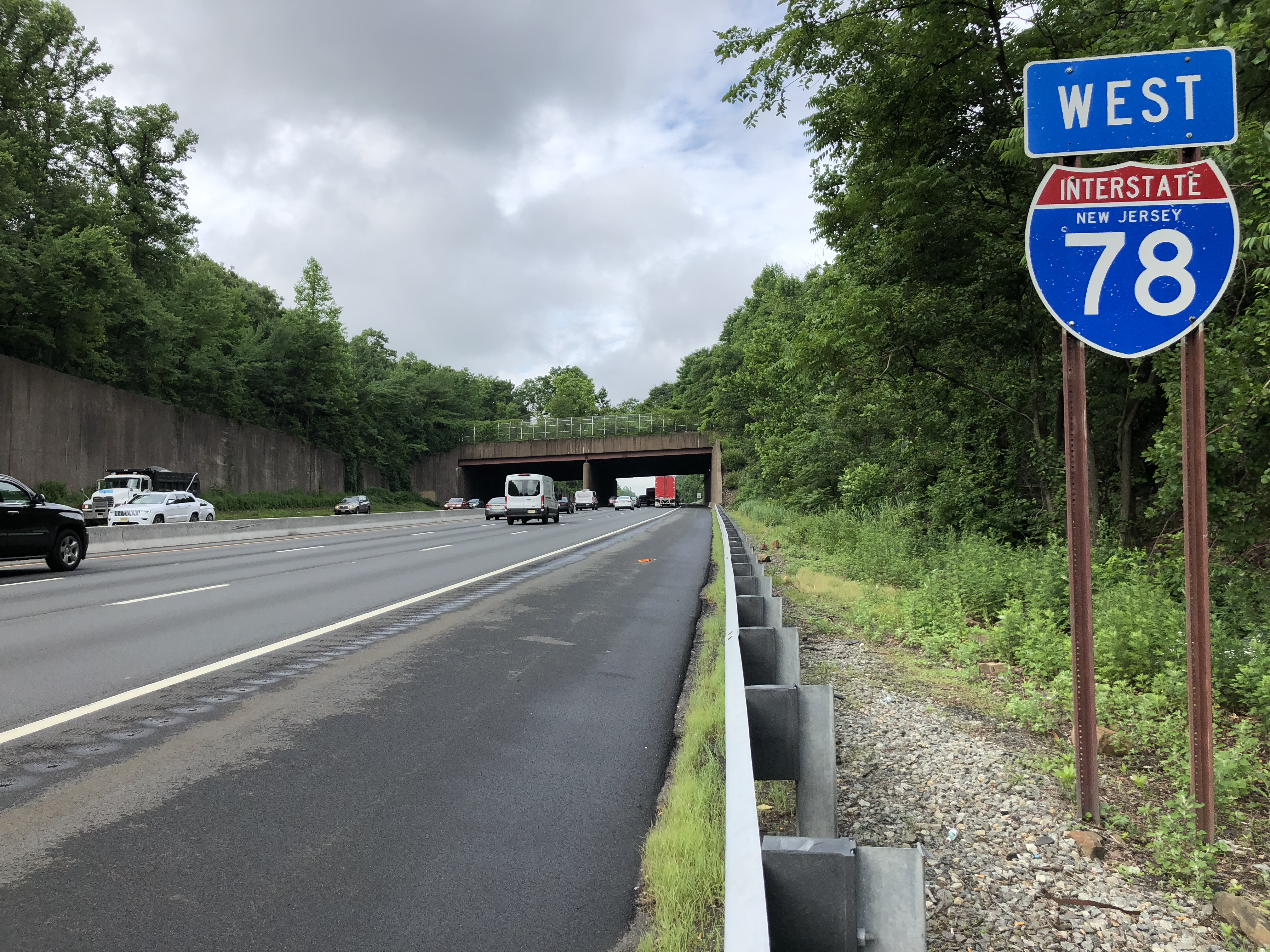 View west along Interstate 78 (Phillipsburg-Newark Expressway) between Exit 48 and Exit 43 in Summit, Union County, New Jersey